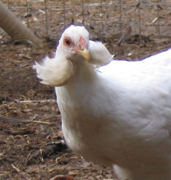 A white Araucana hen showing ear-tufts